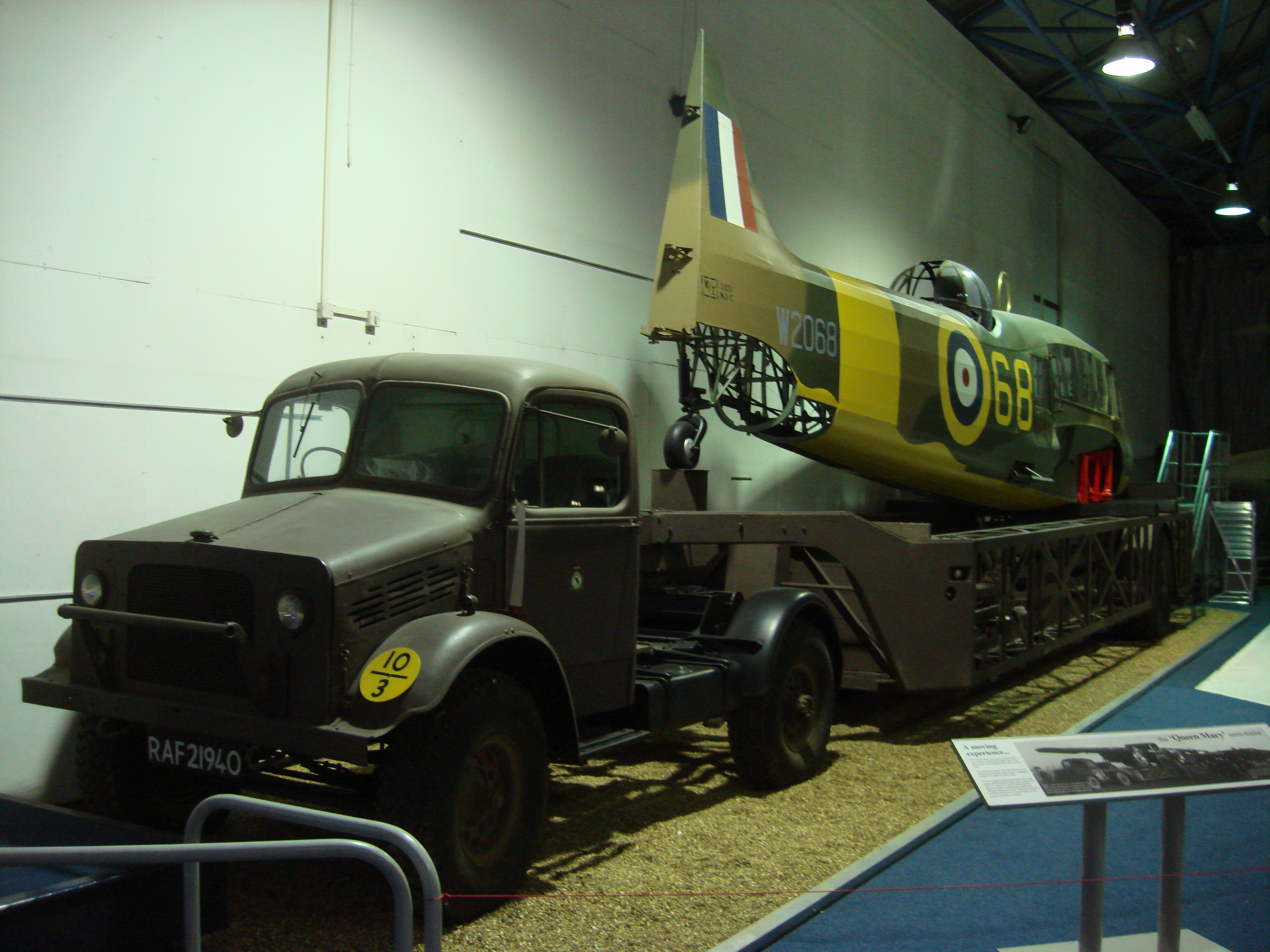 "Queen Mary" semi-trailer carrying part of an Avro Anson aircraft at the RAF Museum London